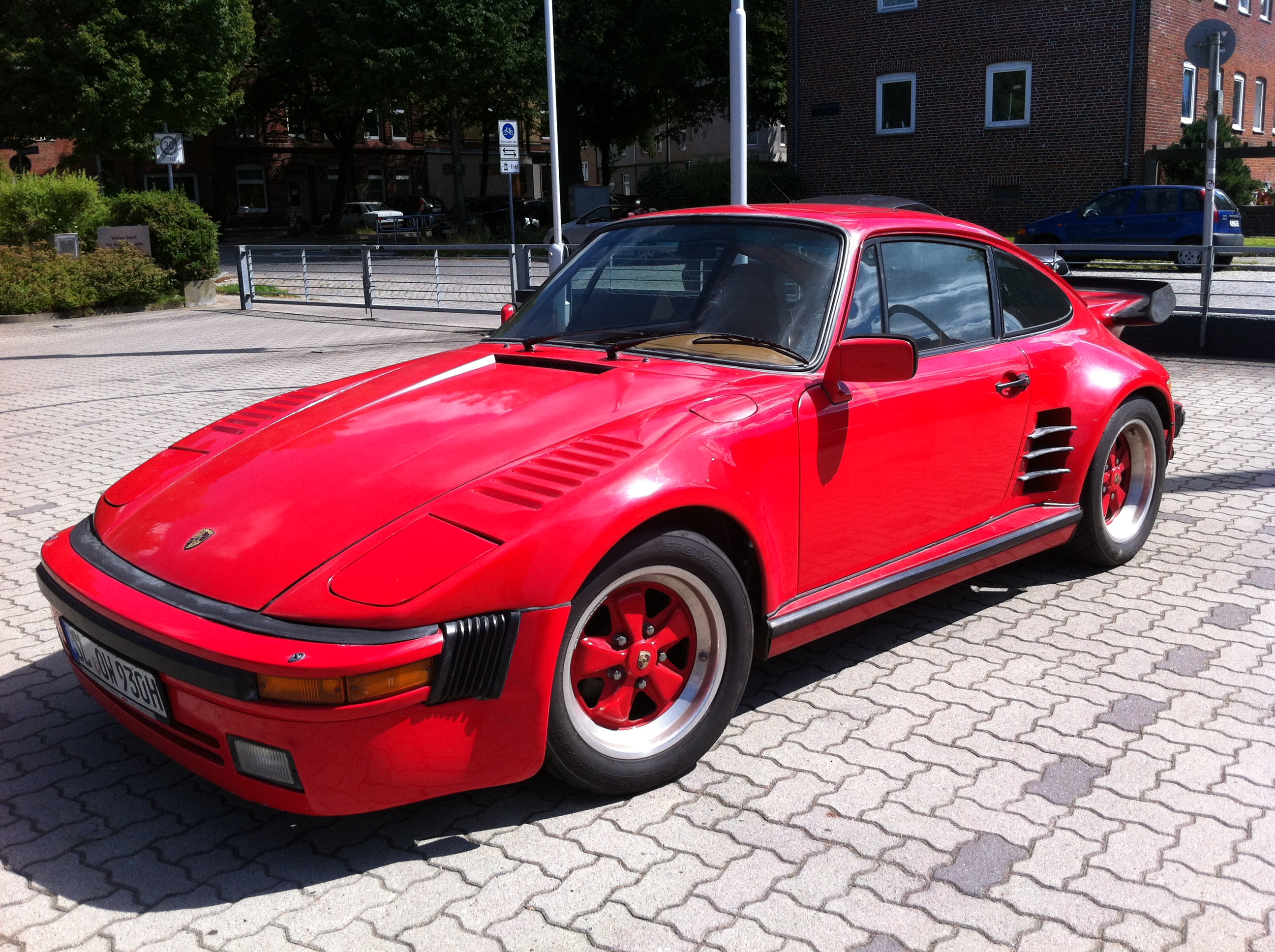 Porsche 911 Turbo 3.3 Flatnose (type 930)